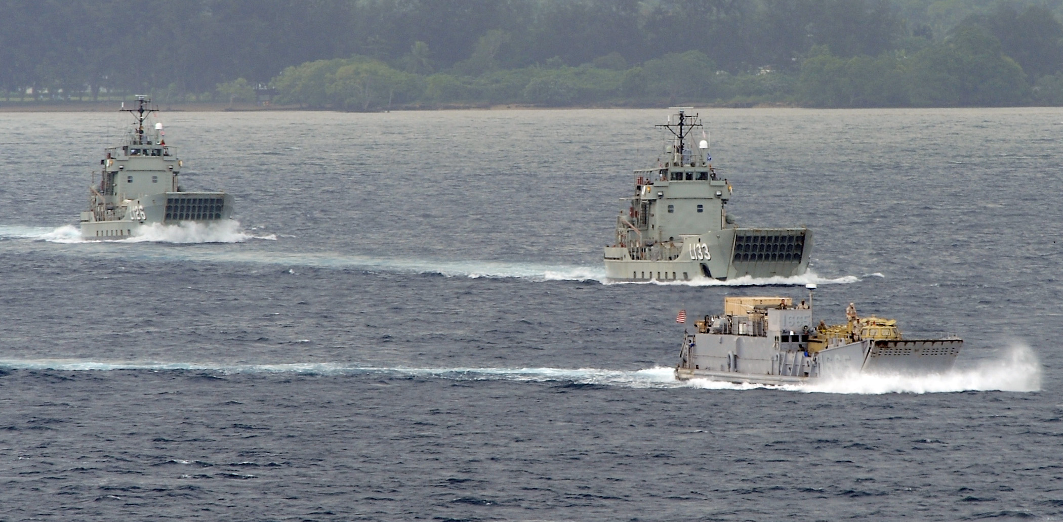 ABOARD USS CLEVELAND (LPD 7) (May 9, 2011) (Left to Right) Landing Craft Heavy (LCH) L126 HMAS Balikpapan, Landing Craft Heavy (LCH) L133 HMAS Betano, and Landing Craft Utility (LCU) 1665 transit out of the Segond Channel during Pacific Partnership 2011. Pacific Partnership is a five-month humanitarian assistance initiative that will make port visits to Tonga, Vanuatu, Papua New Guinea, Timor-Leste and the Federated States of Micronesia.